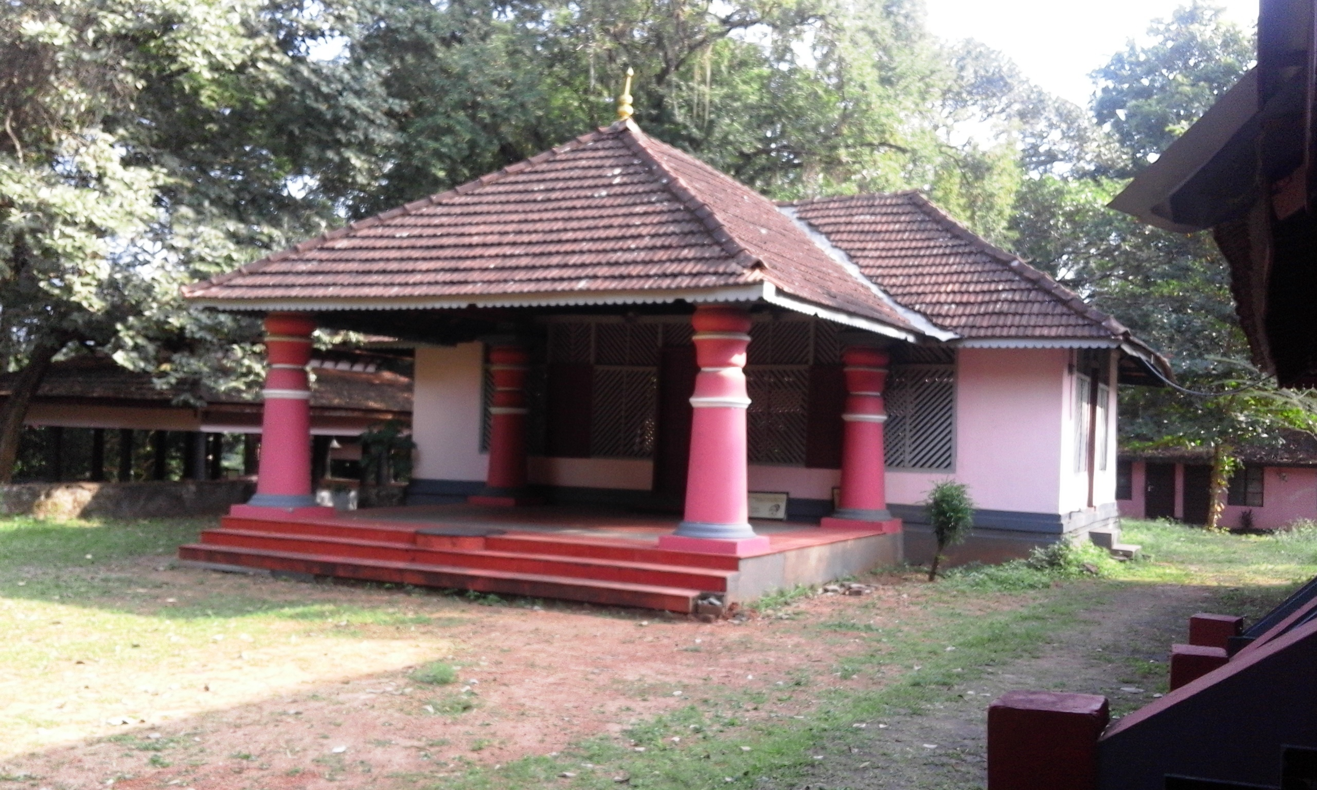 Old P.G.Campus at Kerala Kalamandalam, Shornur, India.